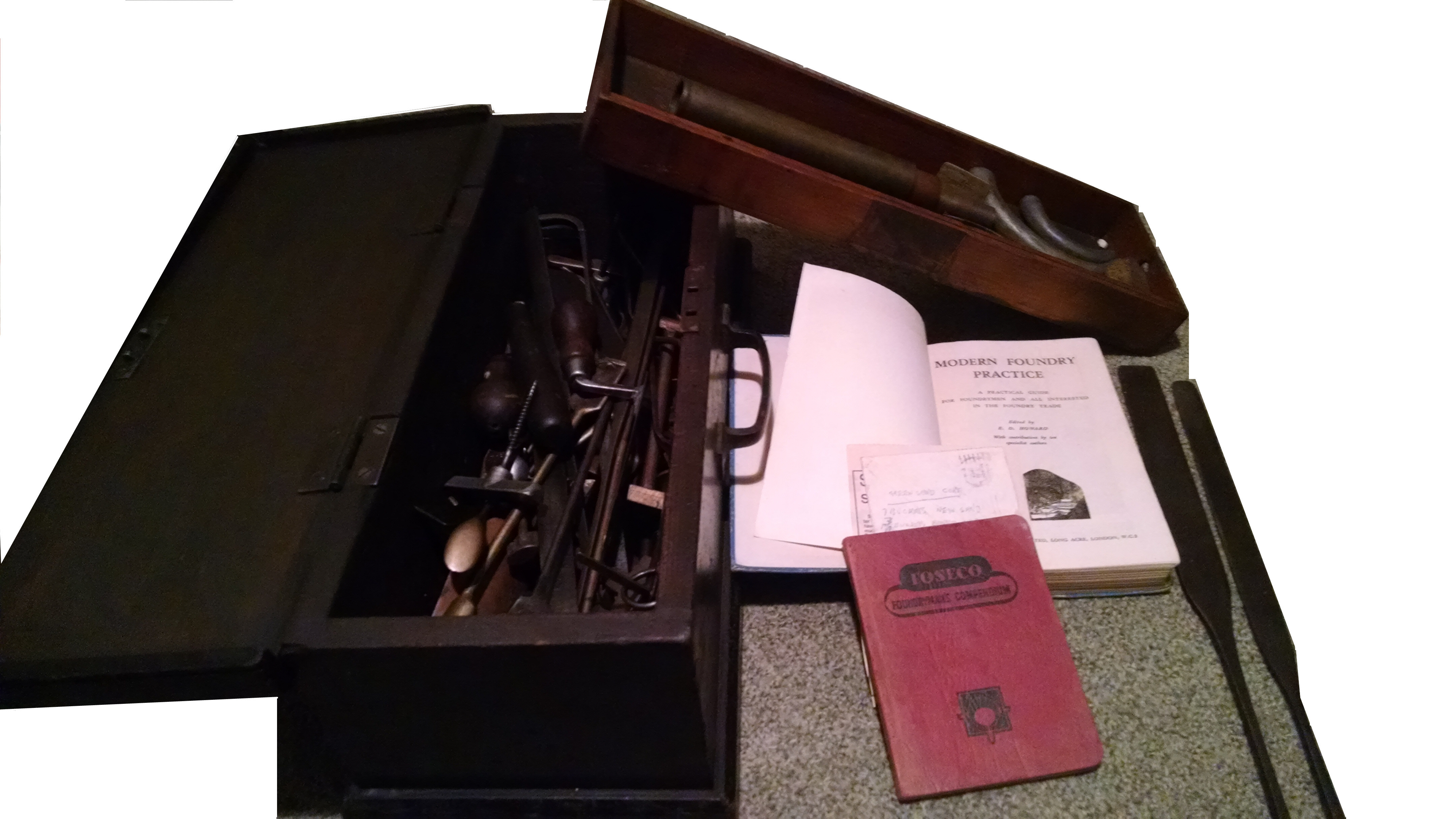 My father used these tools as a Sand Molder in Auckland and Nelson between approximately 1946 and 1960